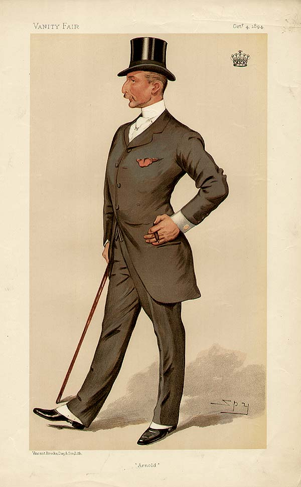 Caricature of The Earl of Albemarle. Caption read "Arnold".